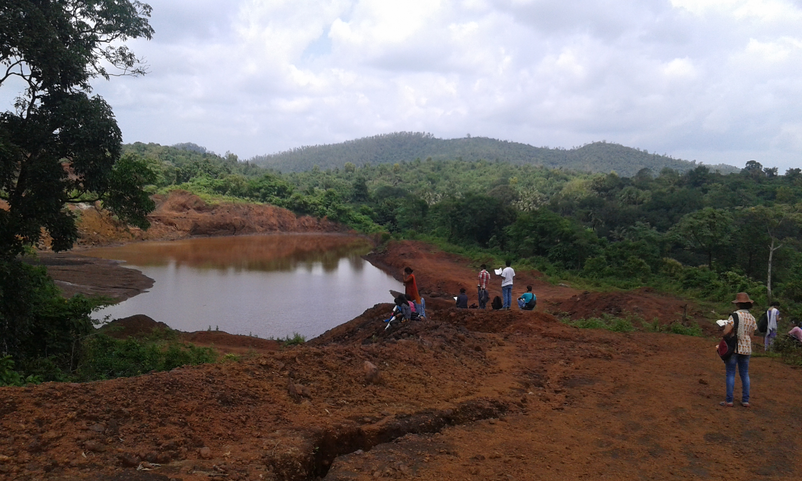 The students along with the Professor Badiger and Orijit Sen from Sakhali College visited the Caurem village on Friday 11.09.2015 to study on impact if mining on environment and village community. The students visited the area of Temechem Dongor mine (TC 1/51). The students had an interaction with mining affected communities of Caurem village.